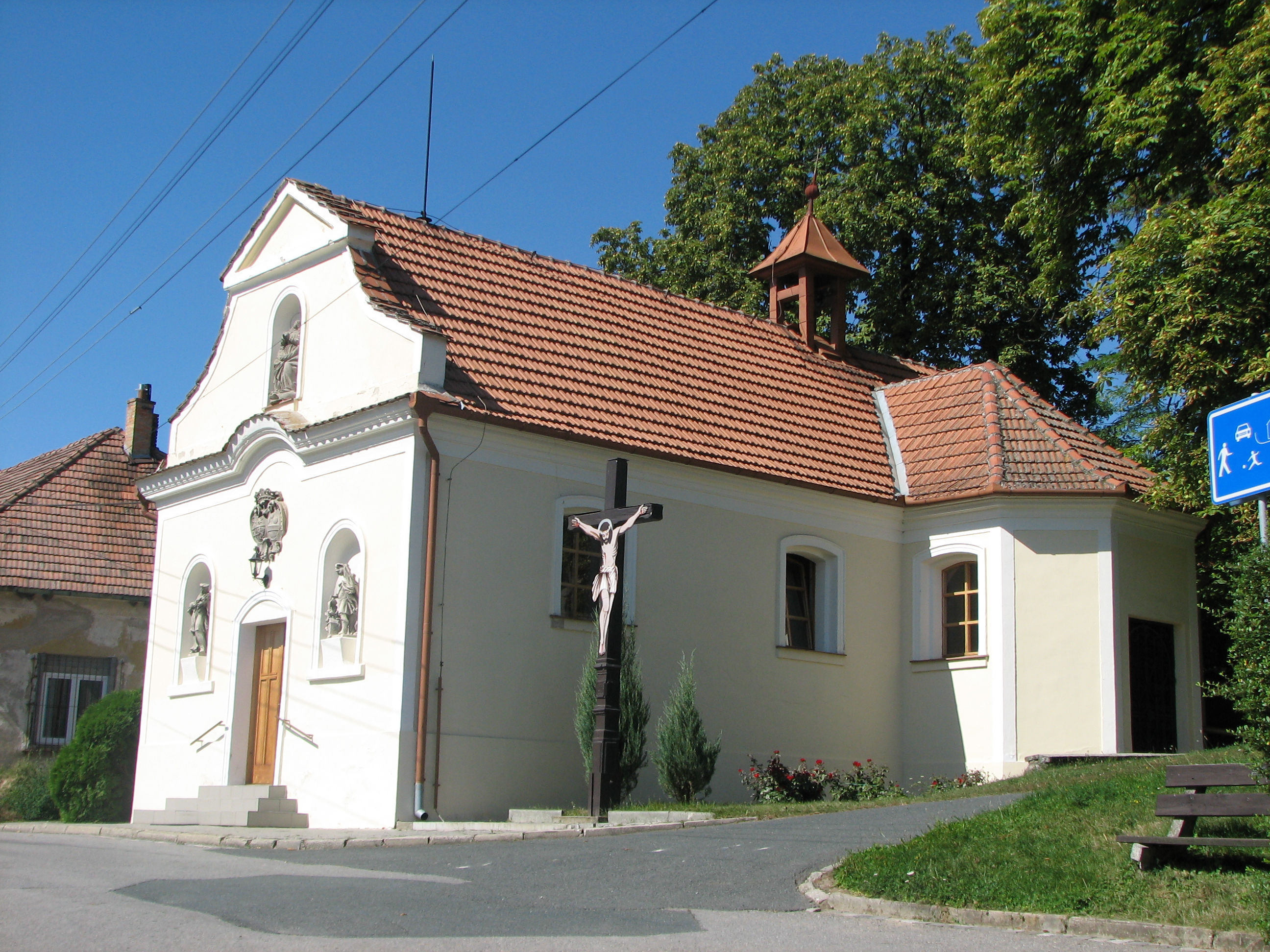 Holy Trinity chapel in Strážovice, Hodonín District, Czech Republic